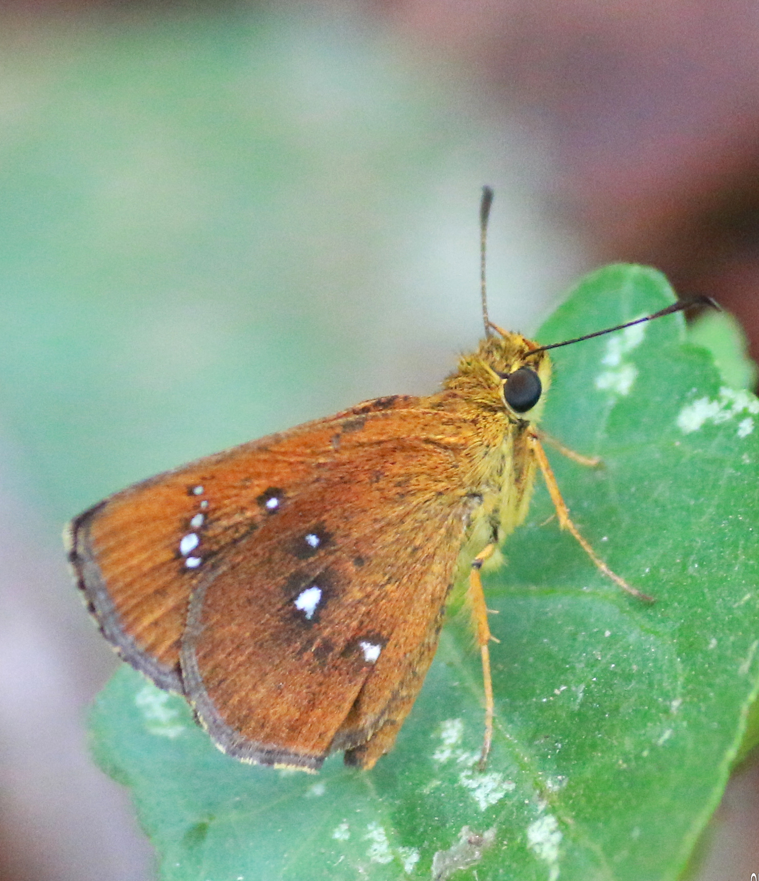 Chestnut bob